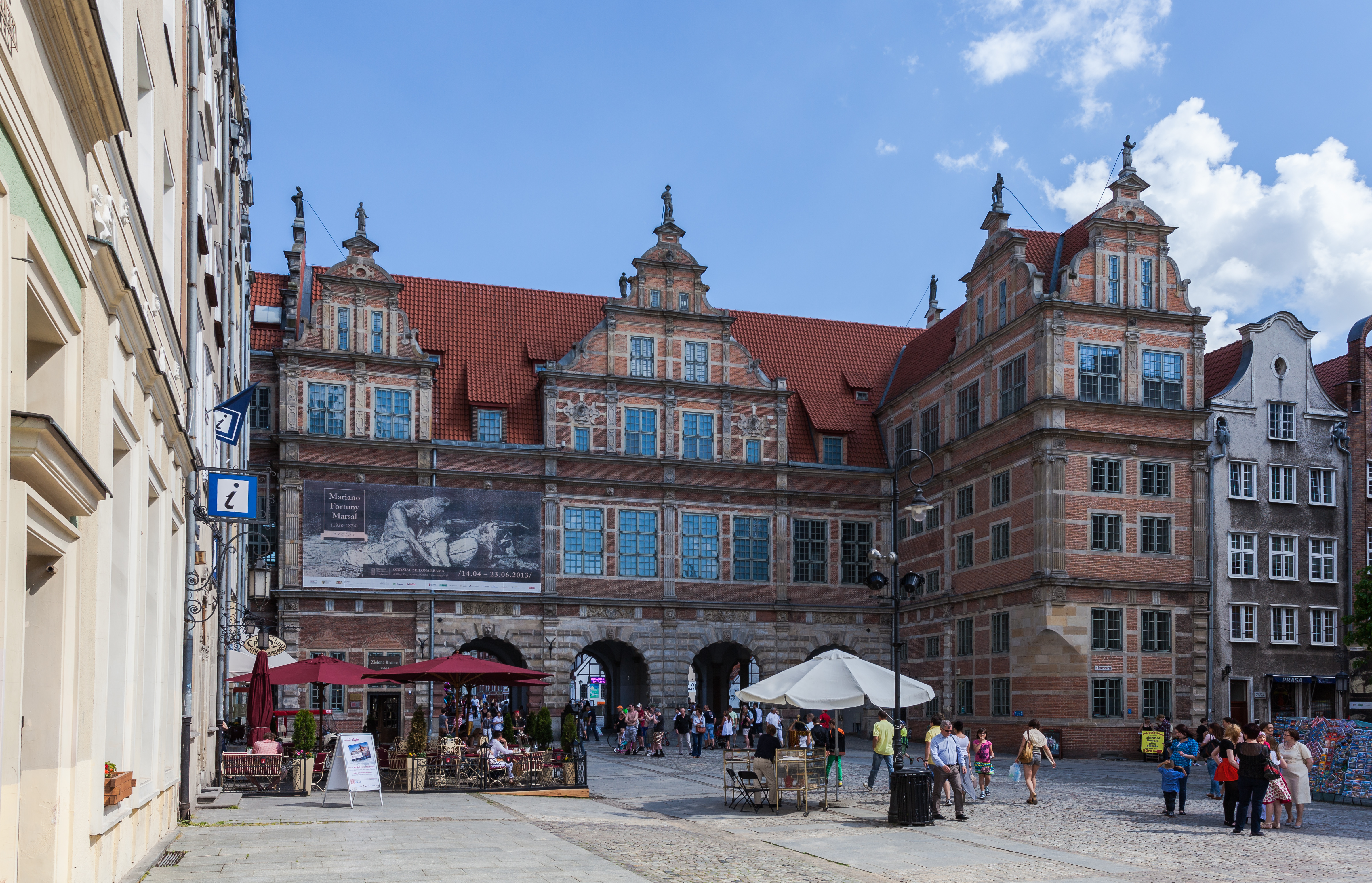 Green Gate, Gdansk, Poland